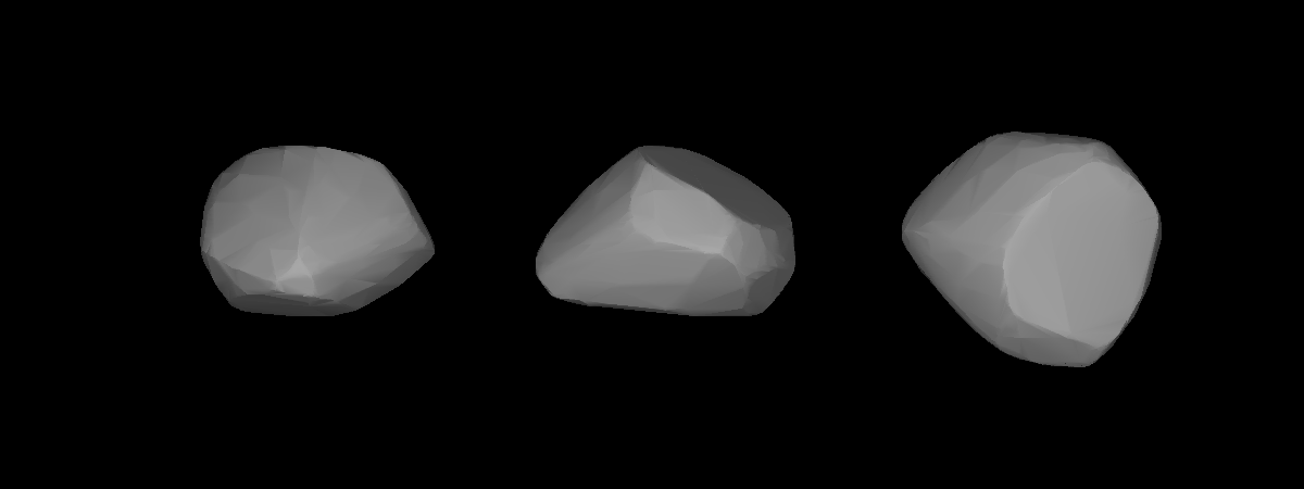 Three-dimensional model of 71 Niobe created based on light-curve.